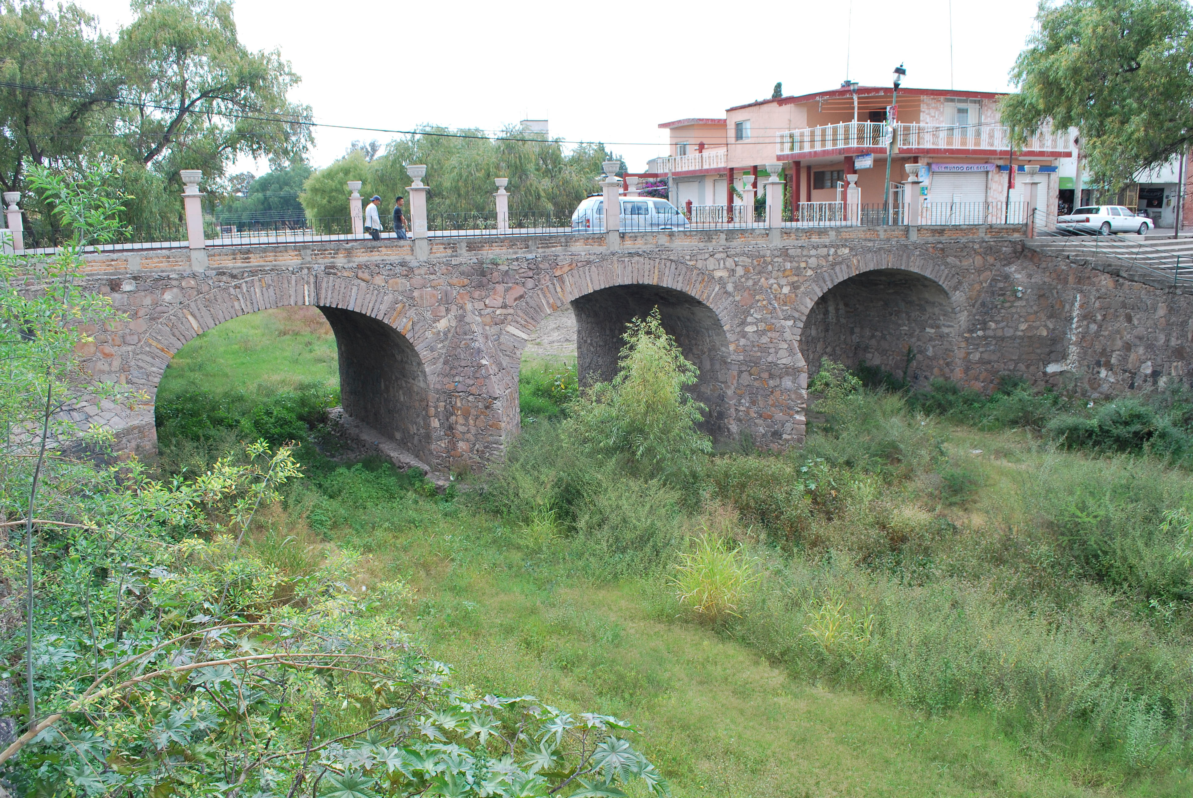 Stone bridge in Encarnacion de Diaz, Jalisco